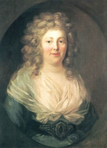 Portrait of Frederika Louisa of Hesse-Darmstadt (1751-1805), wife of Frederick William II of Prussia